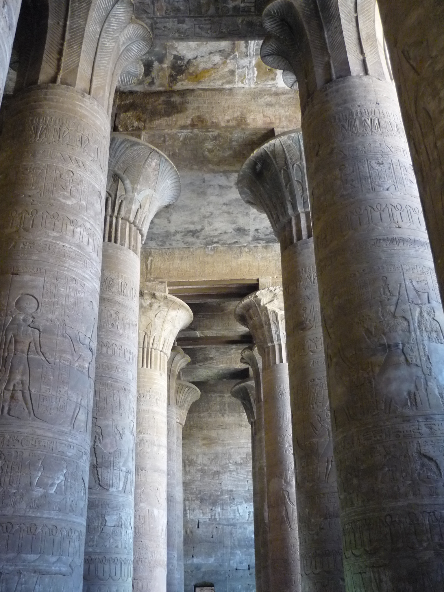 Hypostyle hall, temple of Edfu, Egypt